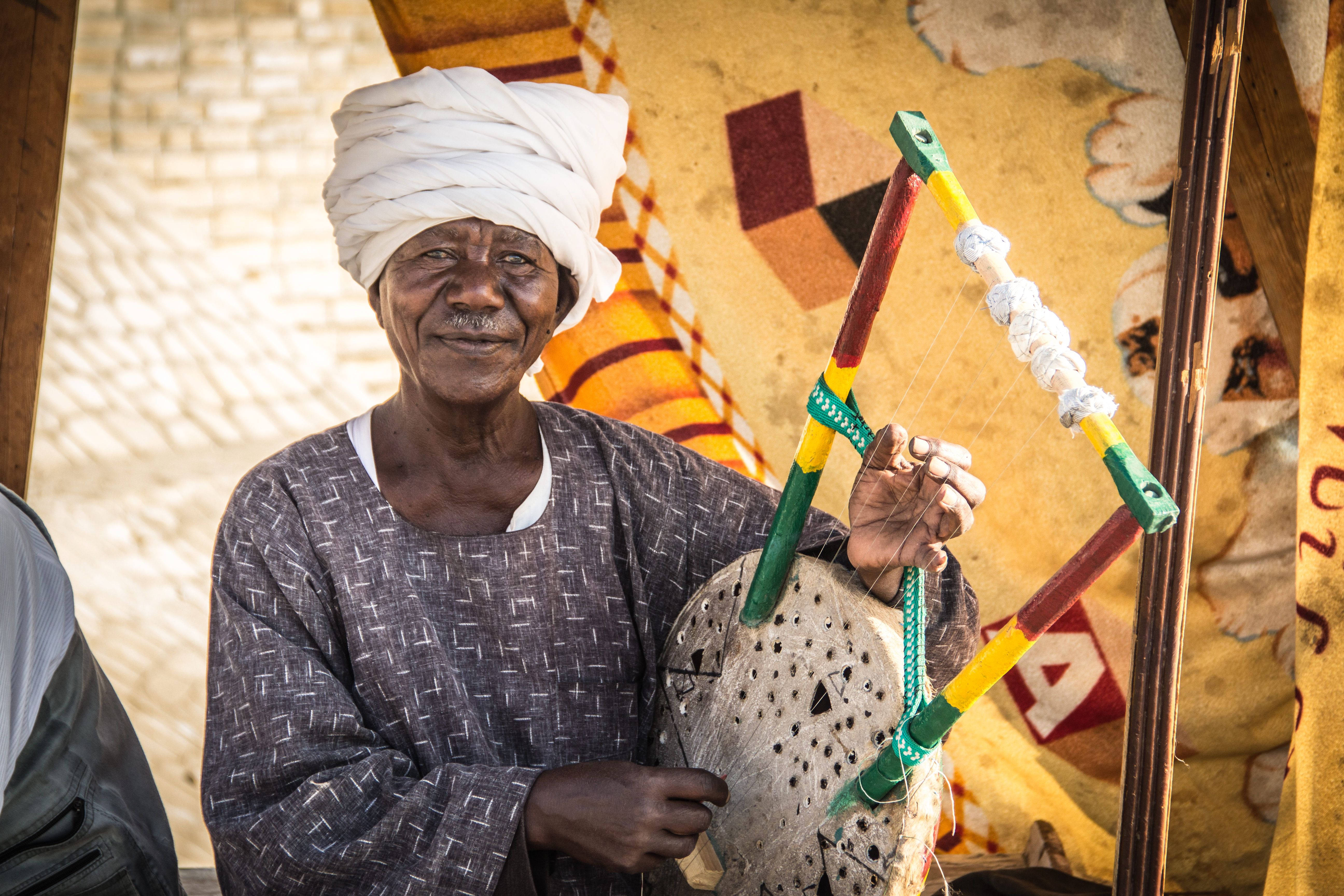 This is an image of "African people at work" from Egypt